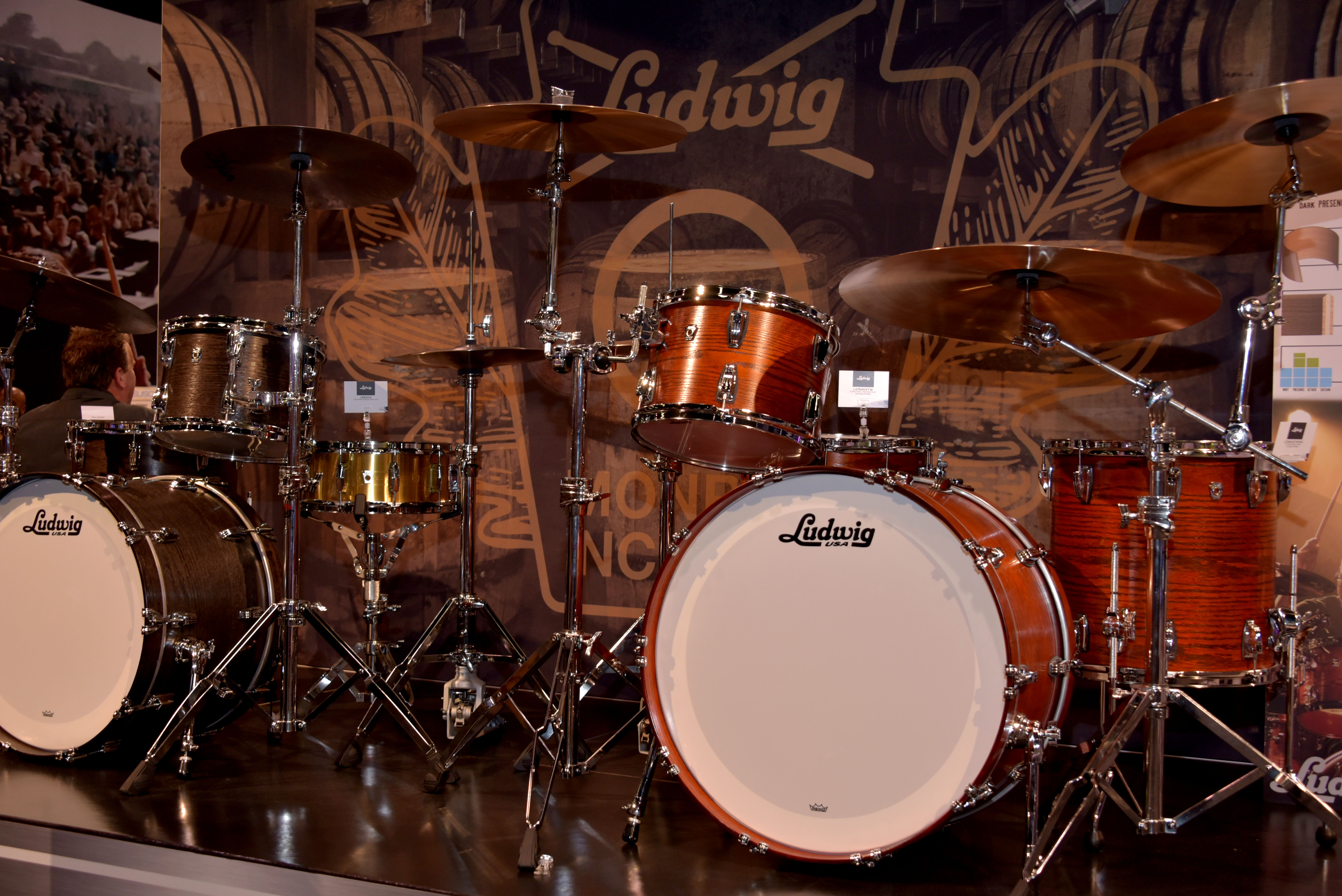 Ludwig Drums Exhibit at 'The NAMM Show' on January 17, 2020 in Anaheim California - Photo by Glenn Francis of